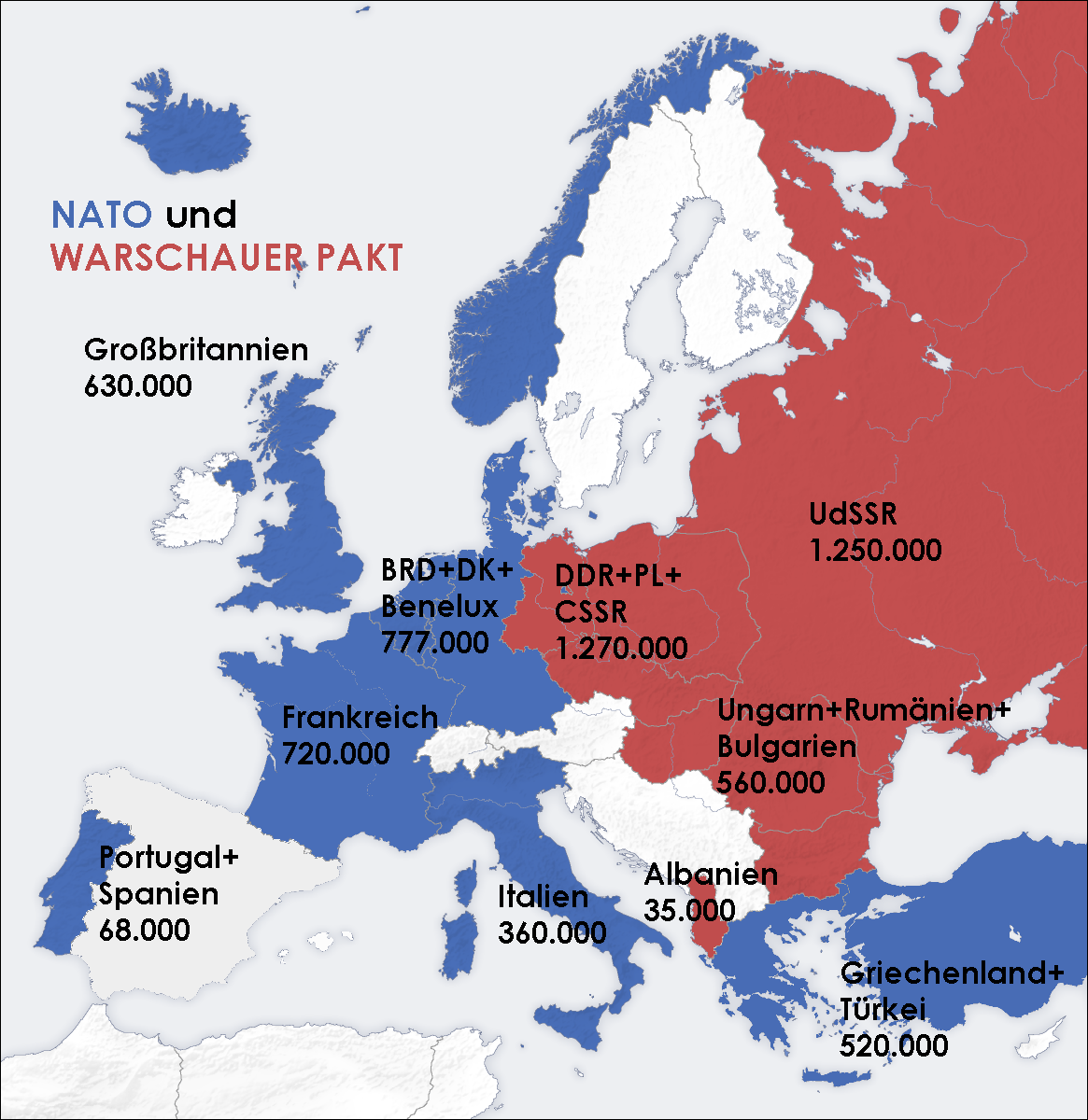 Troop strengths of NATO members in Europe, and of Warsaw Pact members, 1959 Map was created using Generic Mapping Tools. Data for the relief is from these public domain sources: ETOPO2 (Scale 2' = 3.6km at Equator) GLOBE (30" = 0.9km) SRTM (Shuttle Radar Topography Mission) (3″ = 90m)